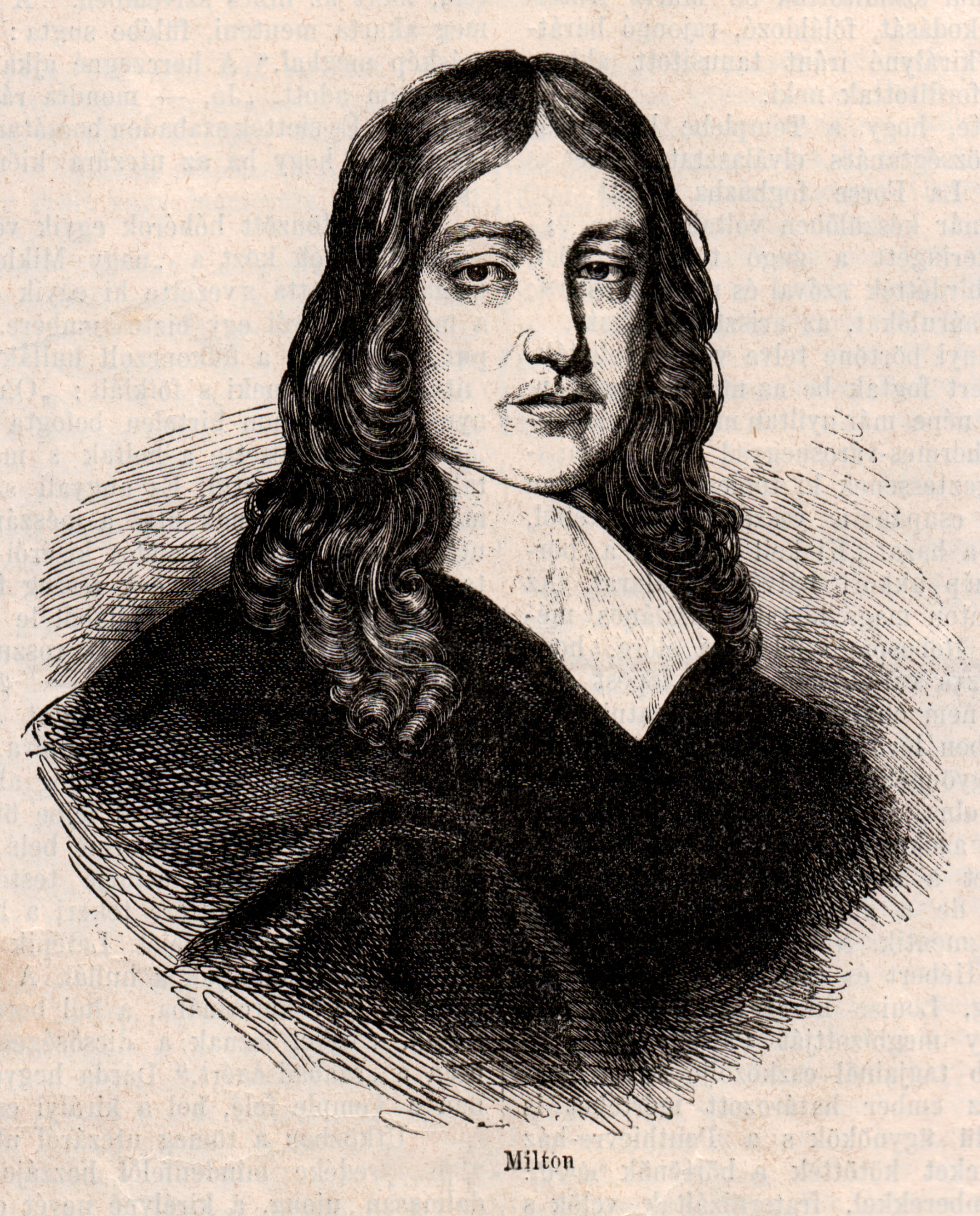 John Milton portrait